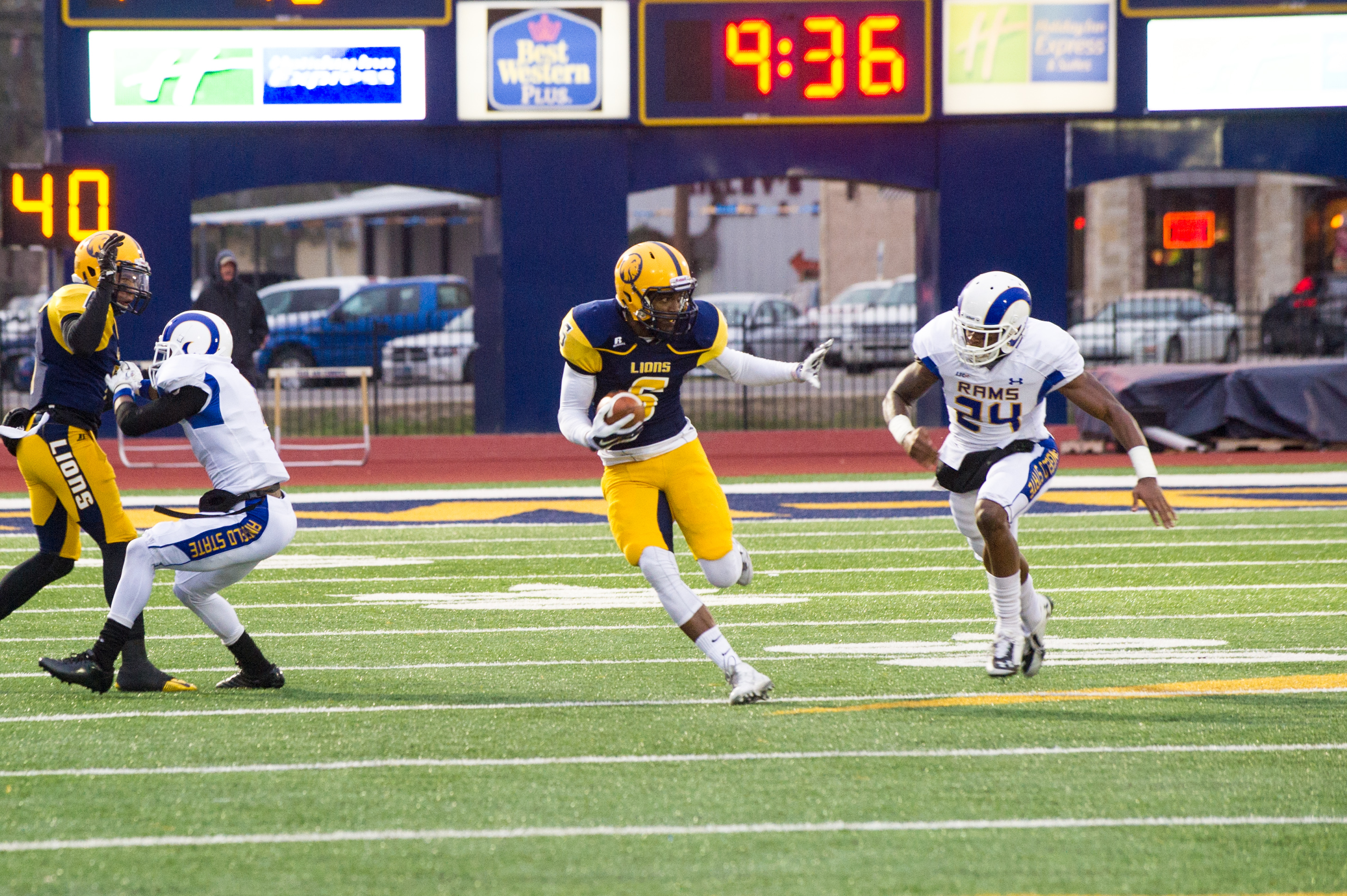 Athletics-Football vs ASU-Playoffs-3857.jpg Scenes from the Angelo State Rams vs. Texas A&M–Commerce Lions football game on November 15, 2014.